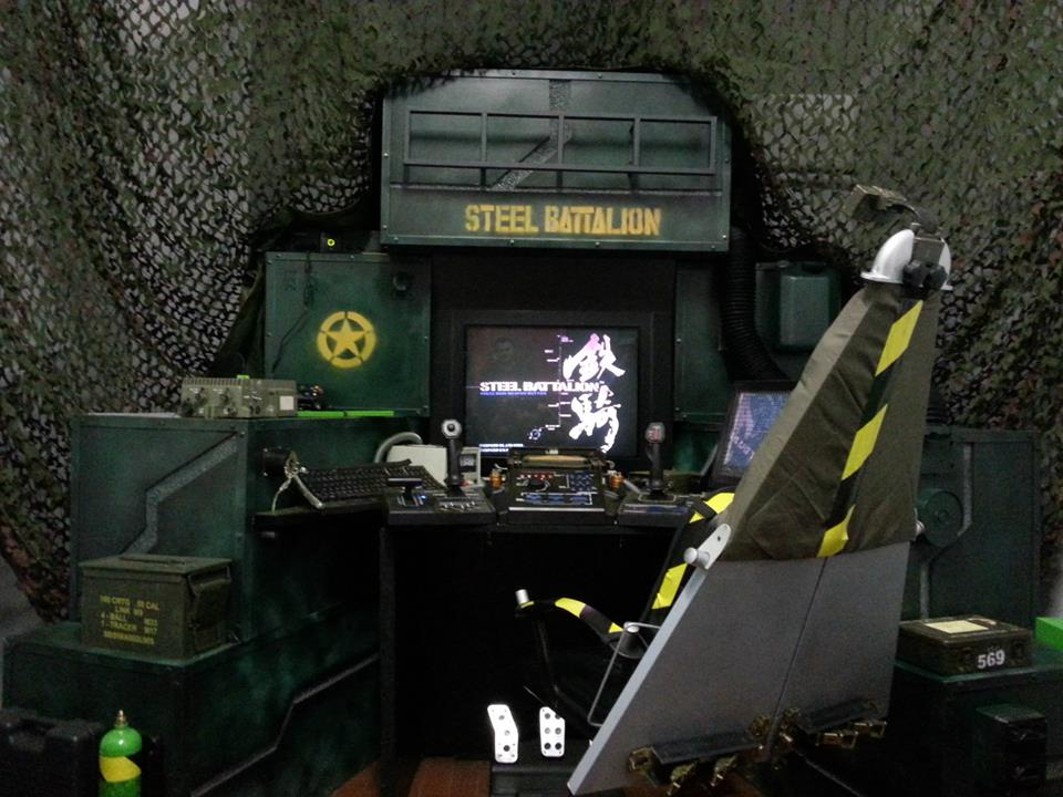 Vigamus' special installation of Capcom's Steel Battalion